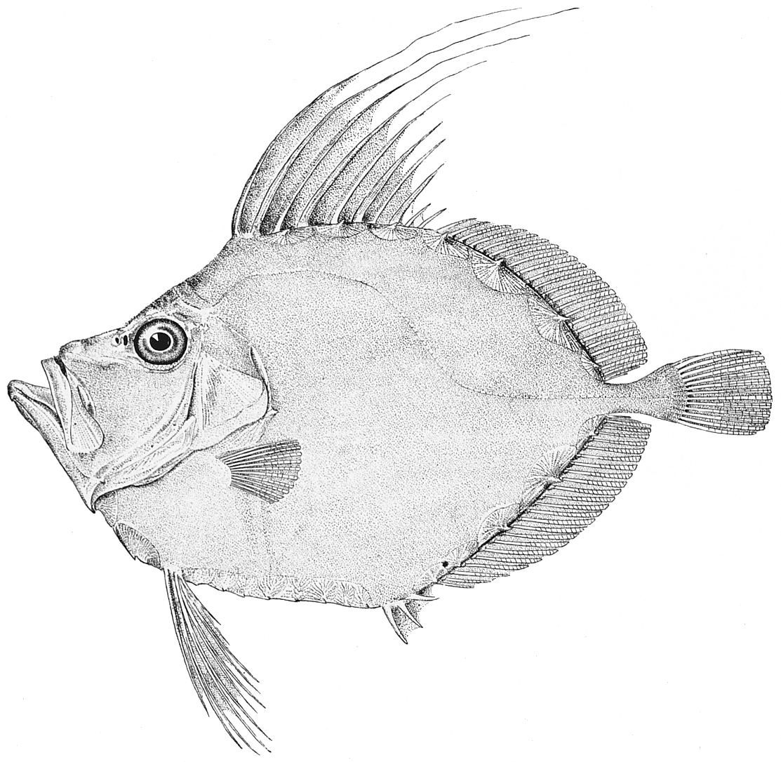 Silvery John dory (Zenopsis conchifera syn. Zenopsis conchifer), a species of dory, family Zeidae.